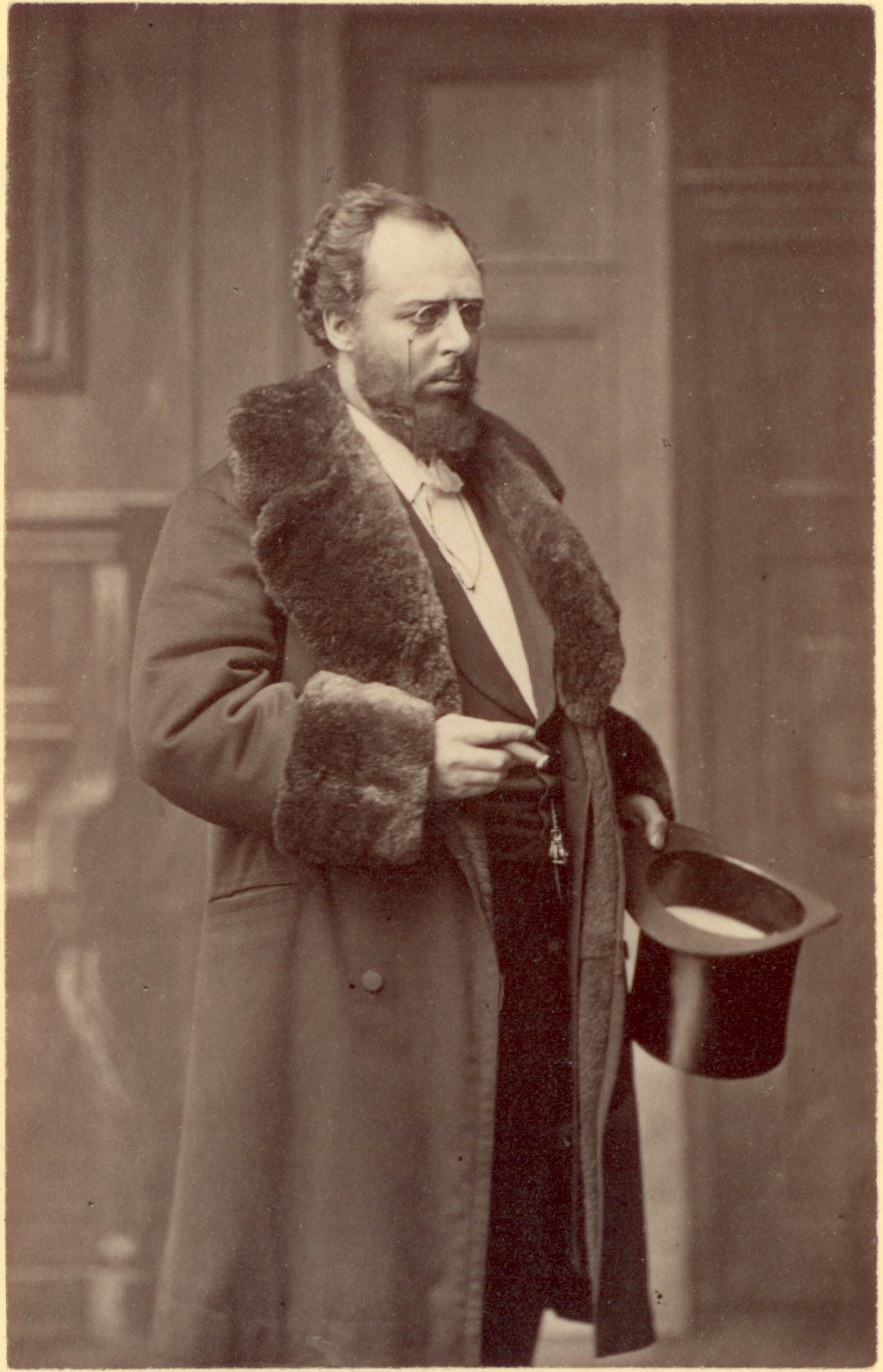 Peter W. Jerndorff as Dr. Rank in the first performance of A Doll's House at The Royal Theatre in Copenhagen. The picture is either taken in 1879 or 1880.